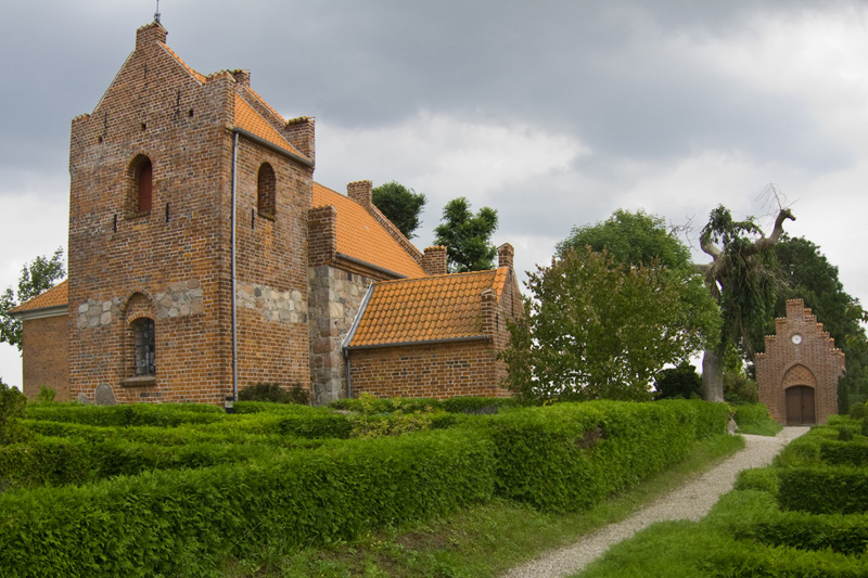 Slagslunde Kirke, church situateted in the danish village Slagslunde